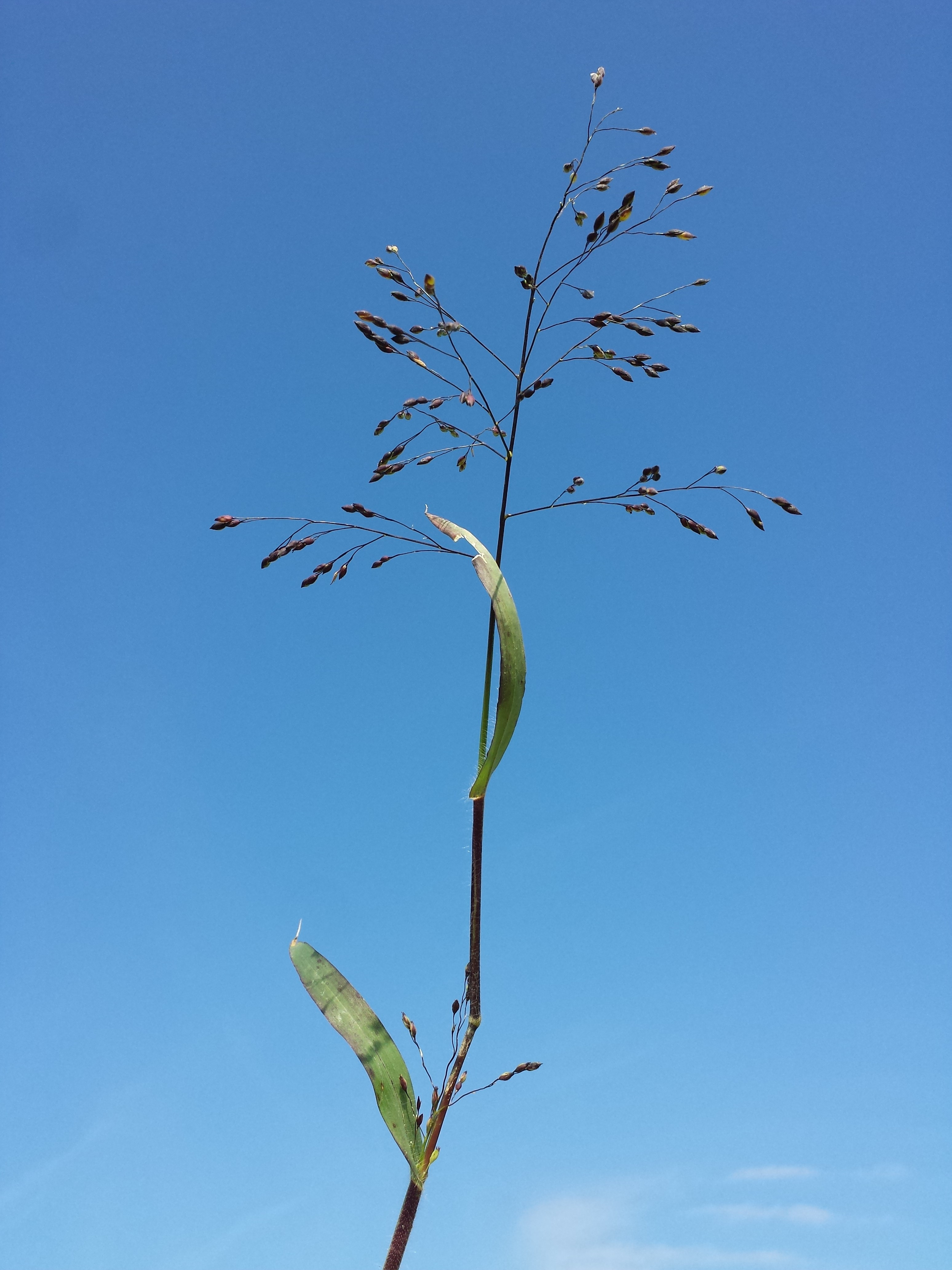 Habitus Taxonym: Panicum miliaceum subsp. ruderale ss Fischer et al. EfÖLS 2008 ISBN 978-3-85474-187-9 Location: to the north of Oberthern, municipality Heldenberg, district Hollabrunn, Lower Austria - ca. 300 m ü. A. Habitat: field